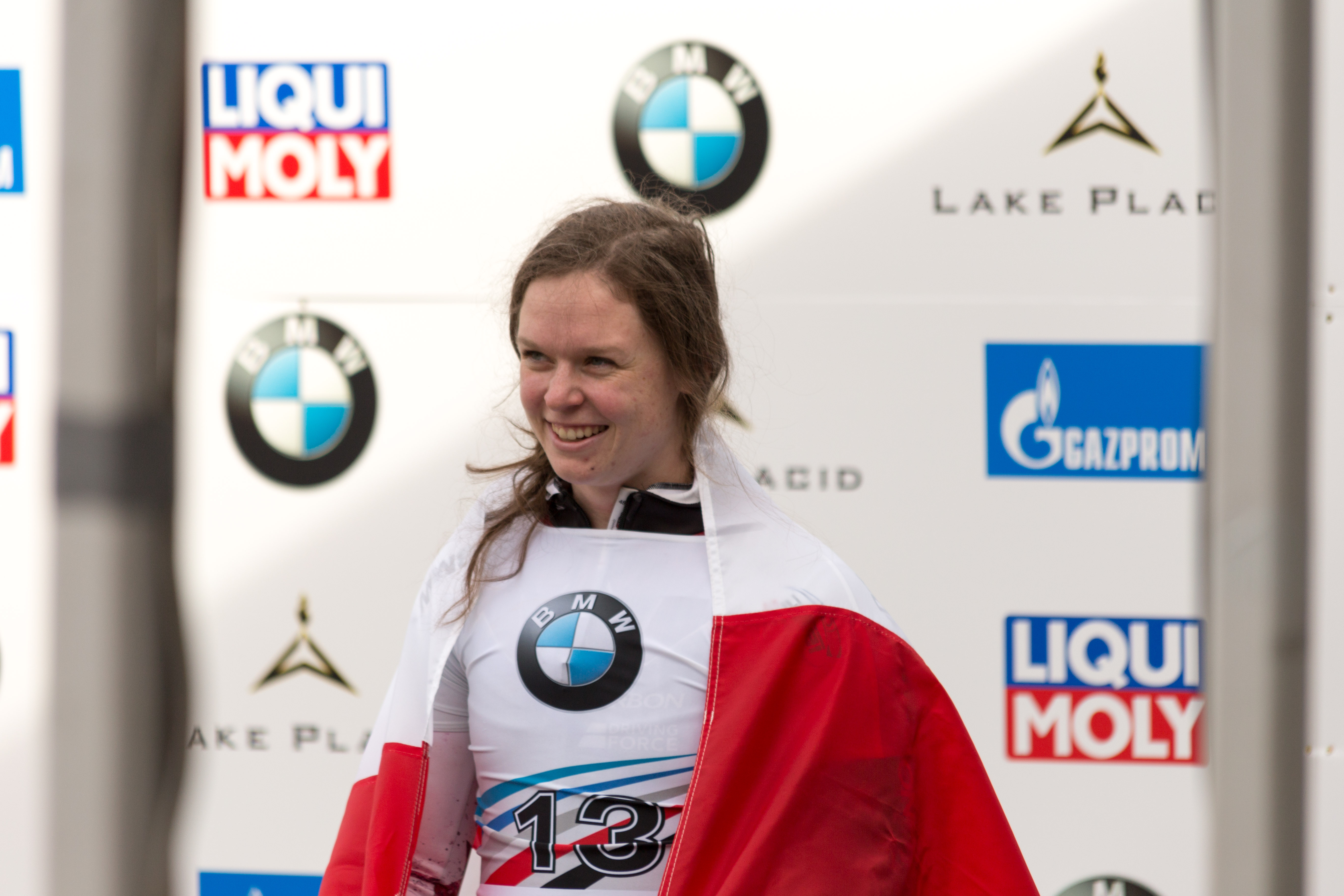 Canadian skeleton athlete Elisabeth Vathje stands in the leader's box after her second run at the 2017/2017 BMW IBSF World Cup race in Lake Placid. She earned a silver medal with a combined time of 1:50.39.